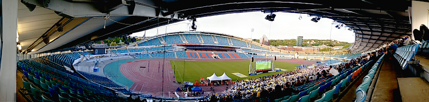 Ullevi stadium